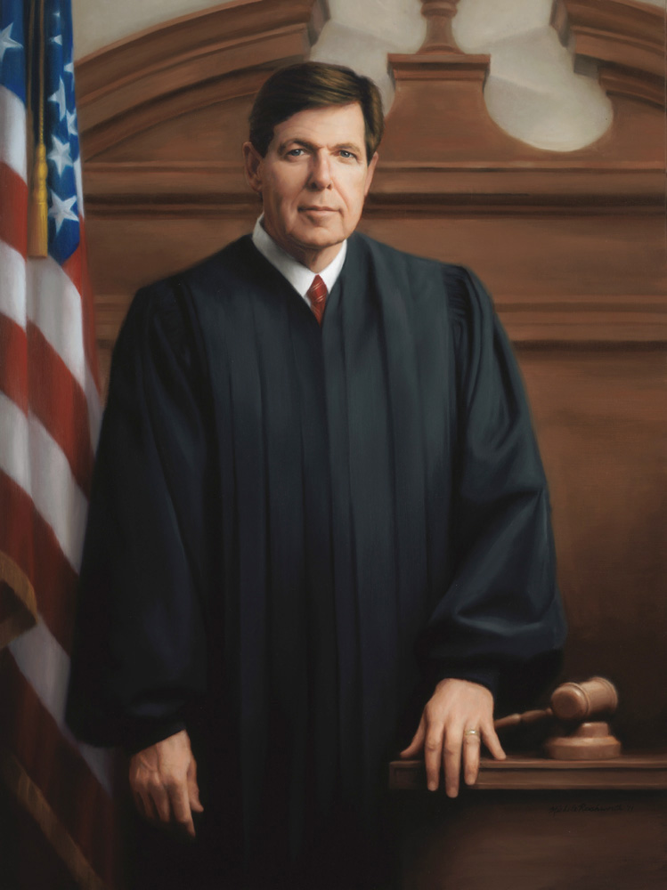 Judge Wm F Downes portrait painting by Michele Rushworth, oil on canvas, 40" x 30", installed at Cheyenne Federal Courthouse